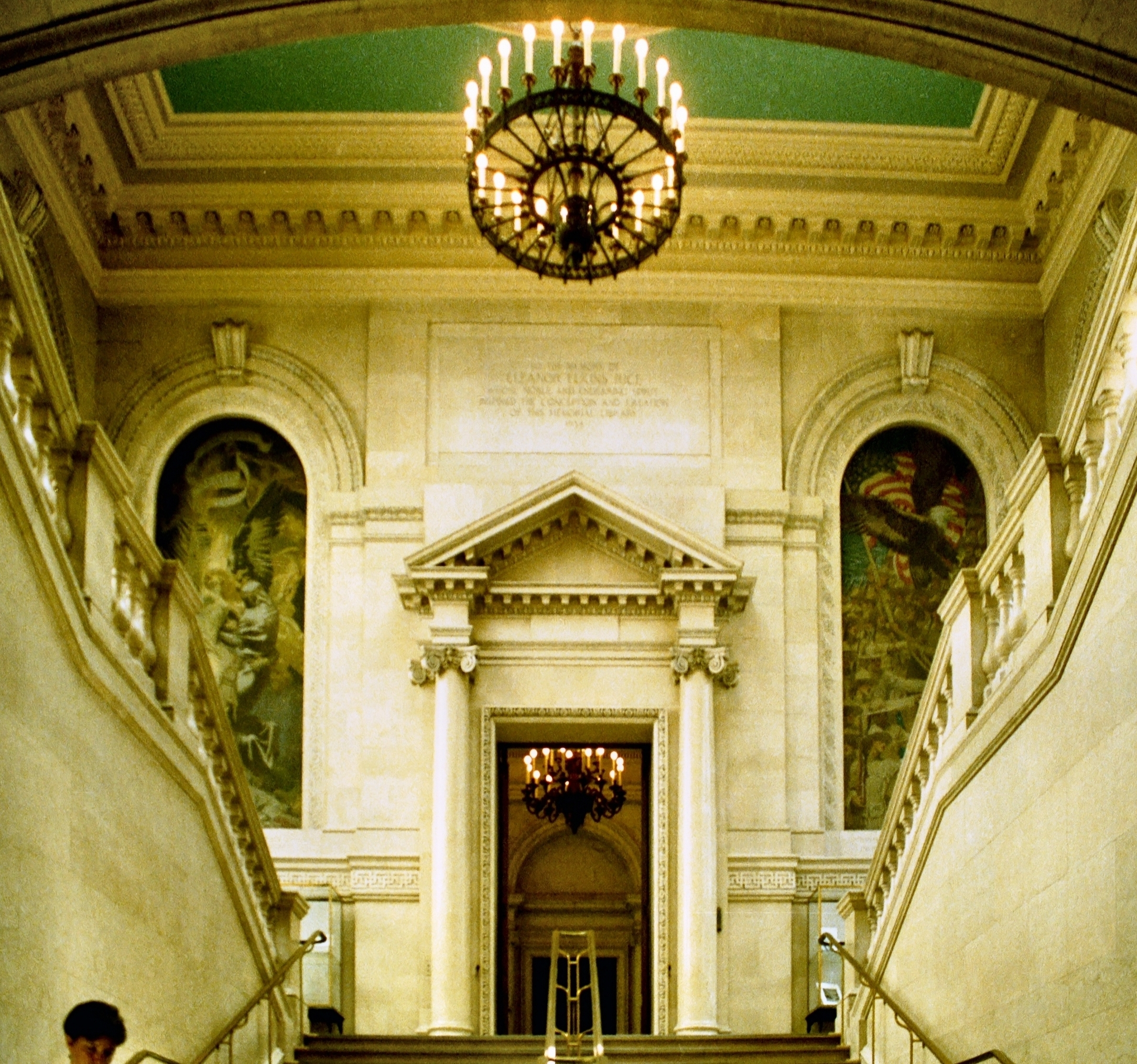 View up stairs leading from entry vestibule to Widener Memorial Rooms, Harry Elkins Widener Memorial Library, Harvard University